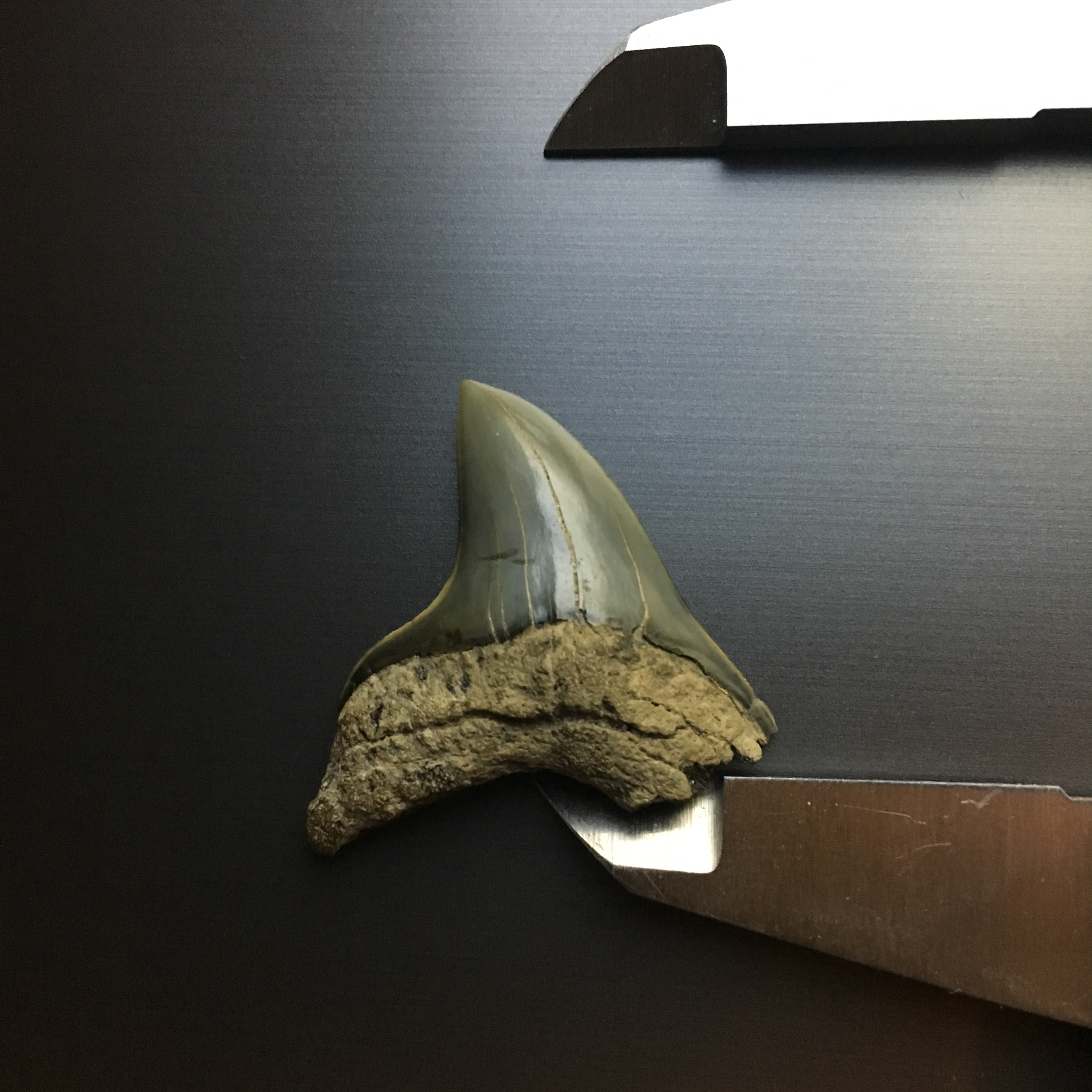 1 inch Alopias grandis from Bayfront Park, Calvert formation, Early-mid Miocene.